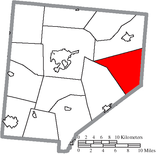 Map of the municipal and township boundaries of Clinton County, Ohio, United States, as of the 2000 census, with the location of Wayne Township highlighted. Township borders are shown only in unincorporated areas in order to differentiate incorporated and unincorporated areas more clearly.